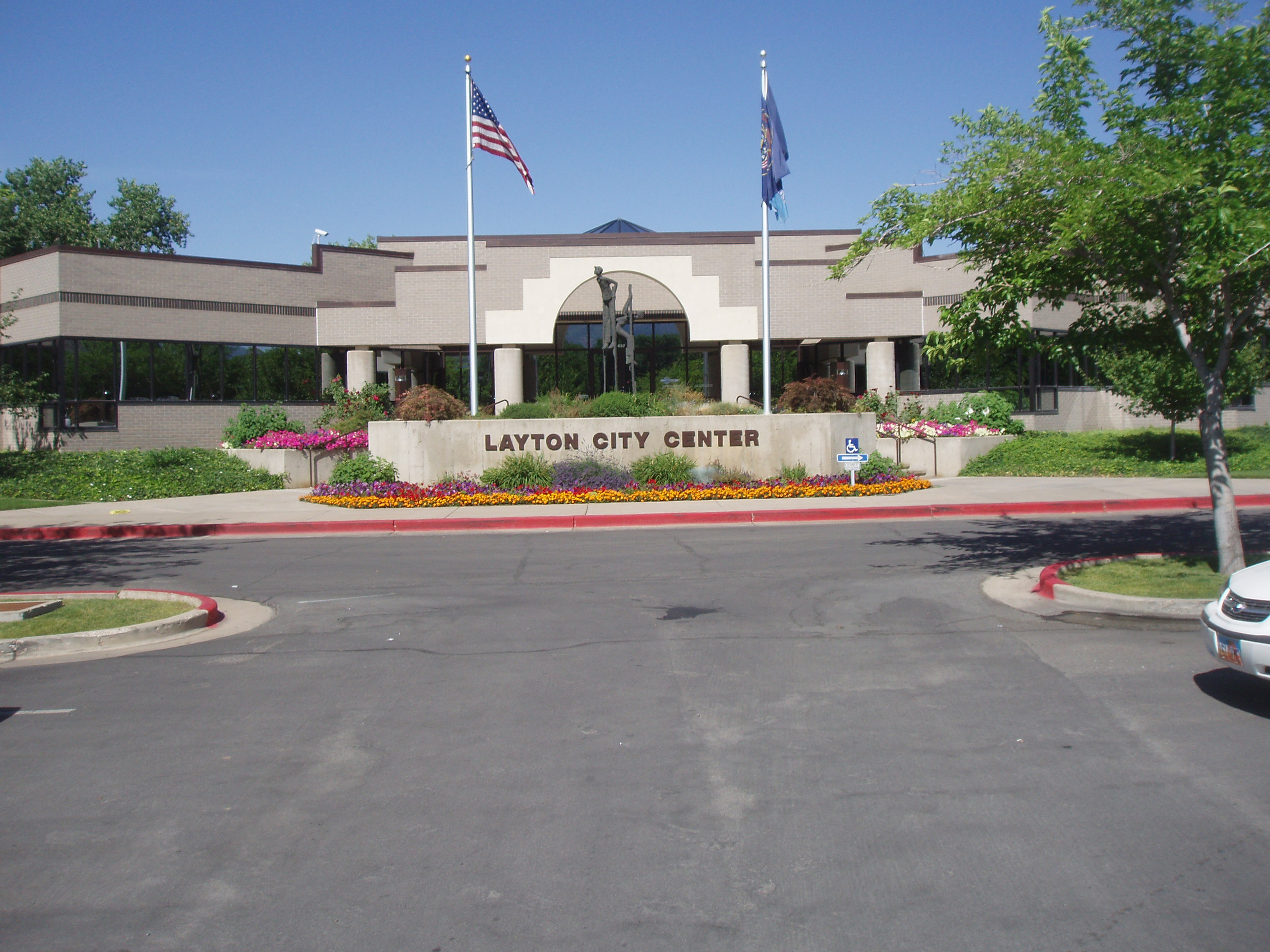 Layton City Center, Layton, Utah, United States